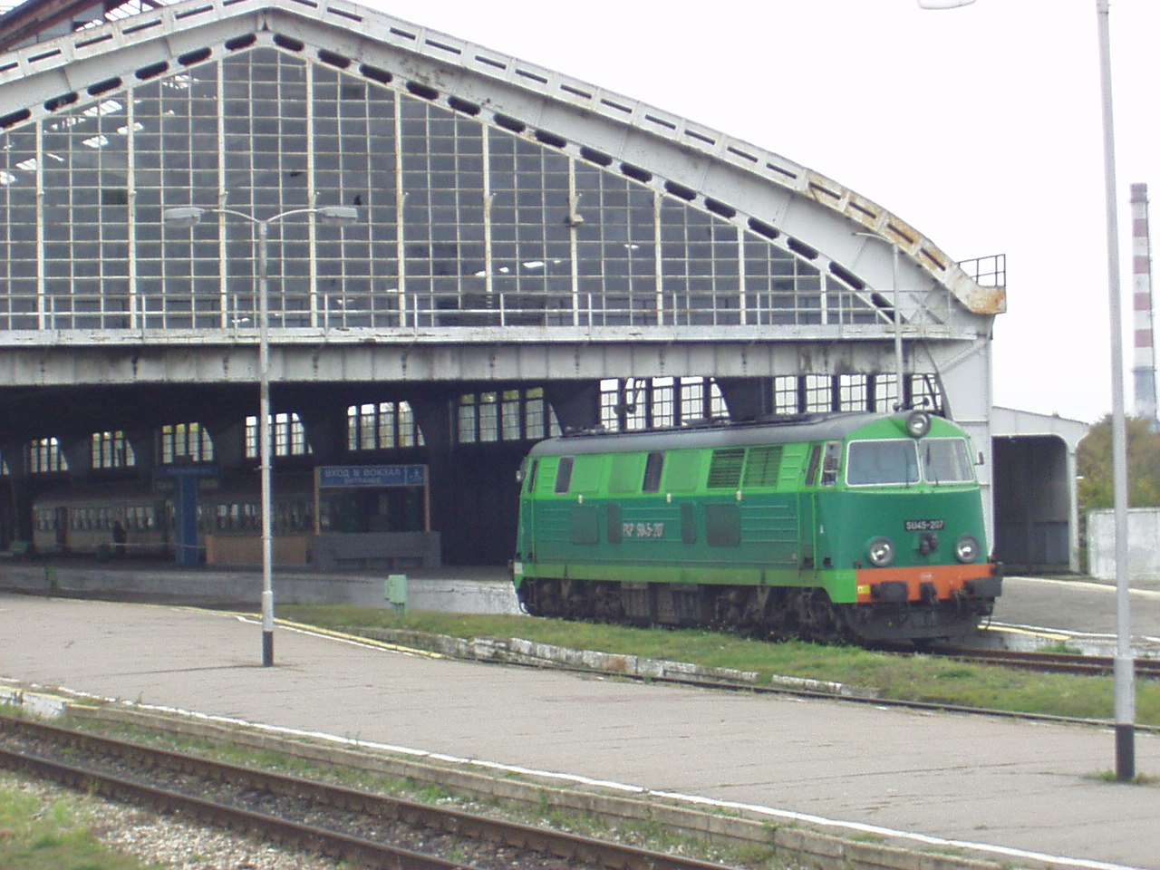 Poland PKP SU45-207 locomotive and train with car PKP 50 5121-18114-1 at Russian Kaliningrad RW station